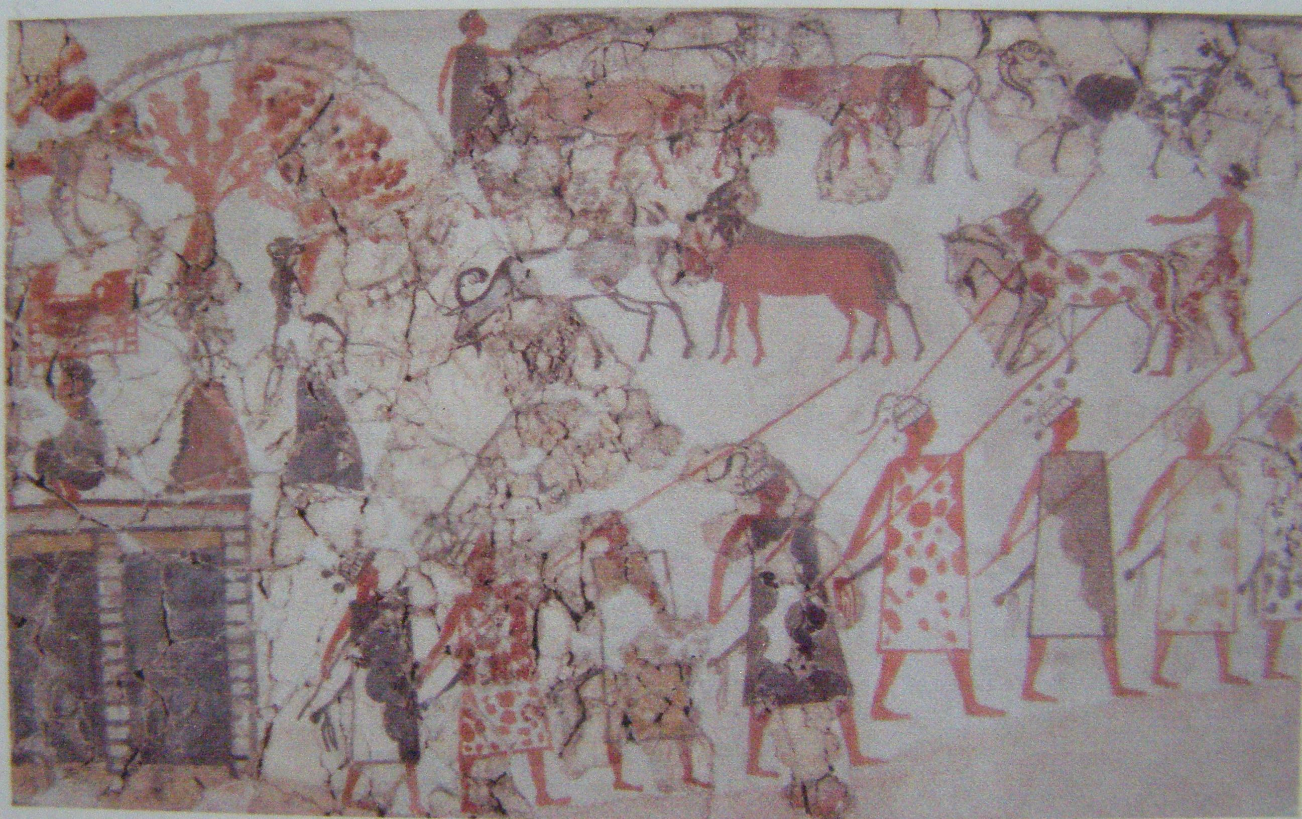 Detail zvířat a lidí.